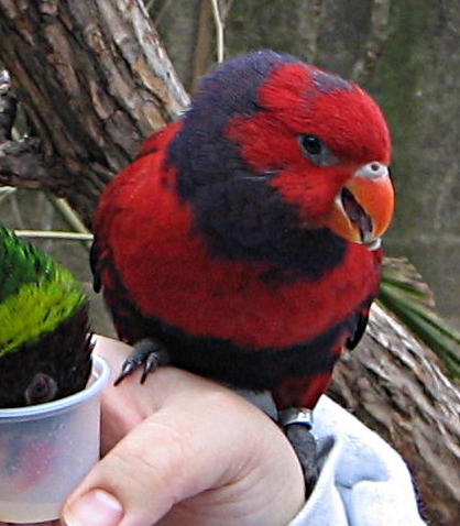 Violet-necked Lory (Eos squamata) probably Eos squamata riciniata at Fort Worth Zoo, Texas, USA.